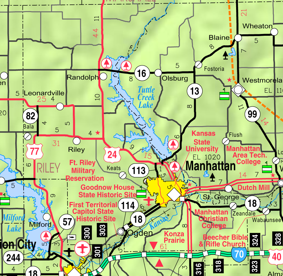 This map of Riley County, Kansas, USA, is copied at a resolution of 300 pixels/inch from the original PDF file.